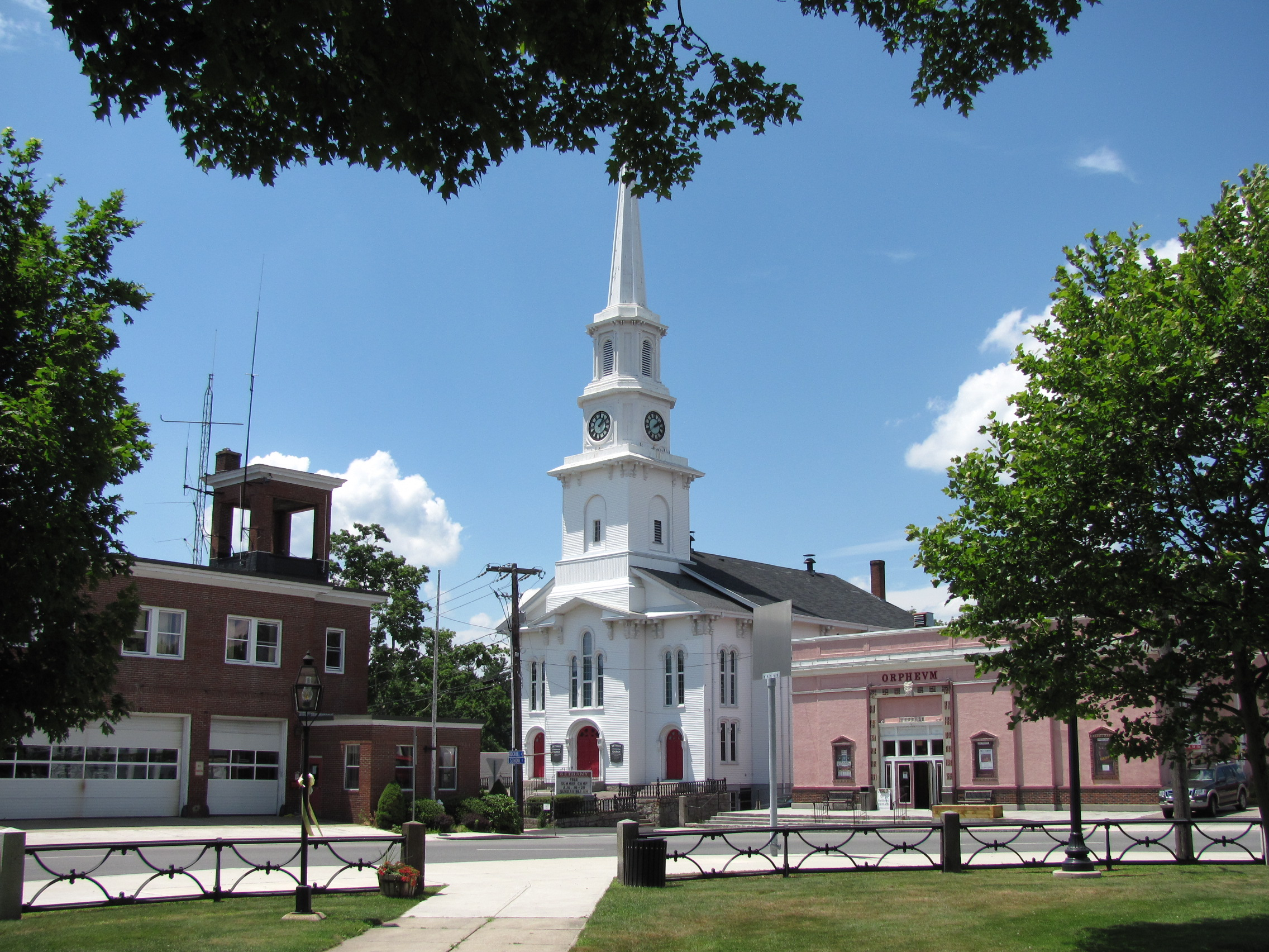 Fire Station, Bethany Congregational Church, and Orpheum Theatre in Foxborough Massachusetts